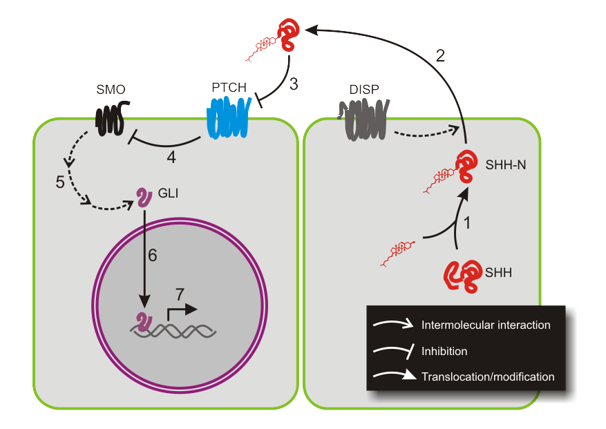 Illustration of sonic hedgehog signaling based on published research